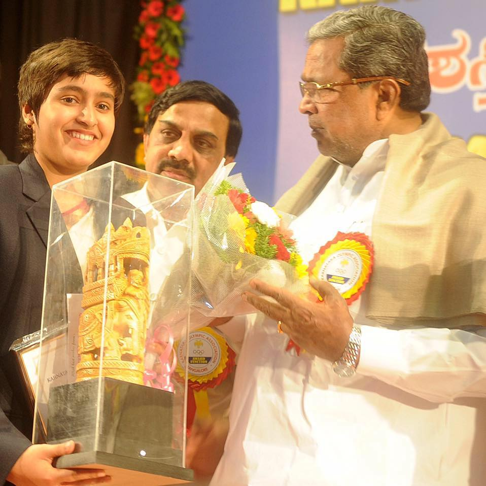 Award from Karnataka CM